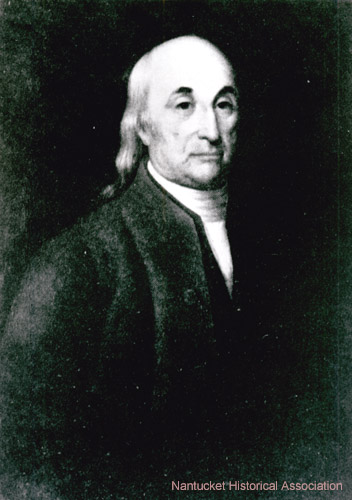 8x10 black and white photographic print on paper